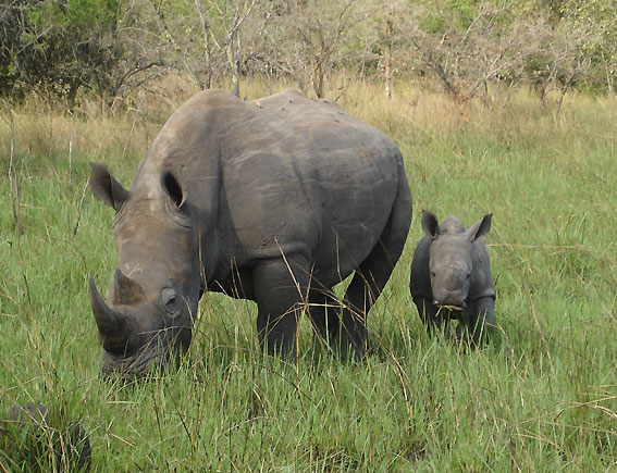 Ziwa Rhino Sanctuary, Uganda